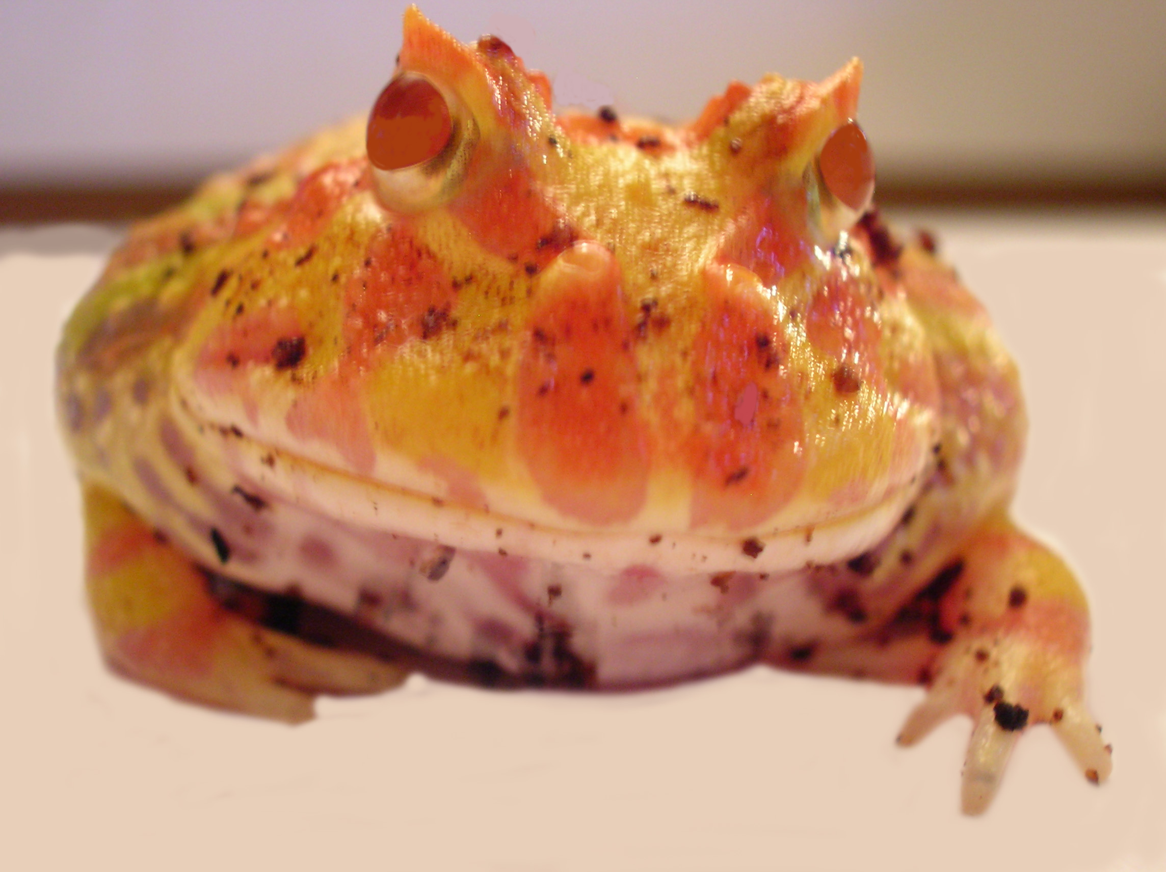 This is a albino Pacman frog. I took this in my Dorm room.